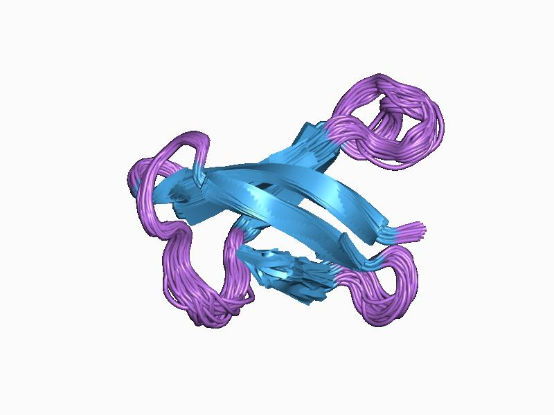 Cartoon representation of the molecular structure of protein registered with 1afp code.